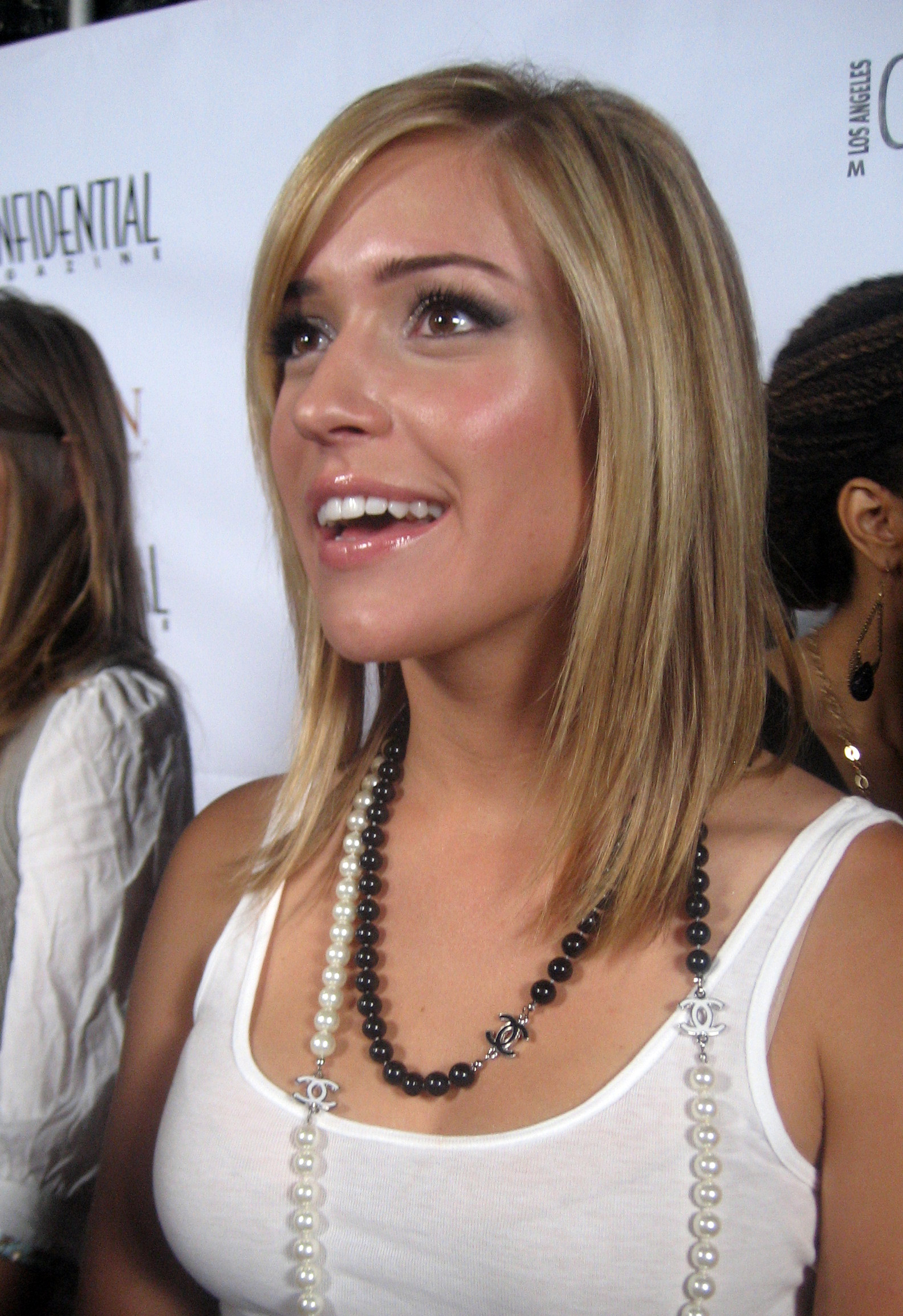 L.A. Confidential/Belvedere/Water Club/Sapporo Emmy Party